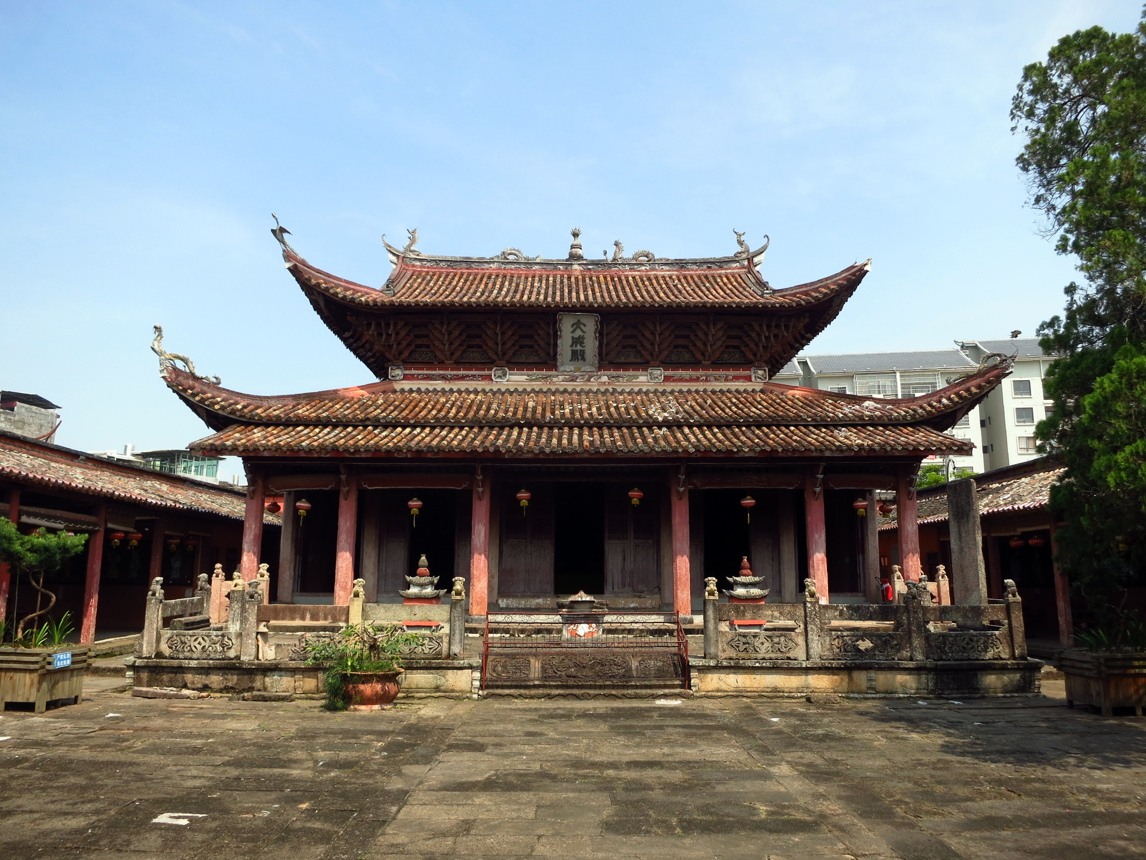 上杭文庙 - Confucian Temple of Shanghang County - 2016.09